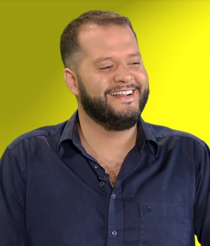 Jesse Brown and Alexandra Molotkow consider the Globe's track record covering Millenials, Generation Y, and Boomerang Kids.